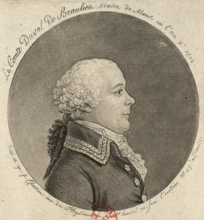 Le Comte Duval de Beaulieu, maire de Mons